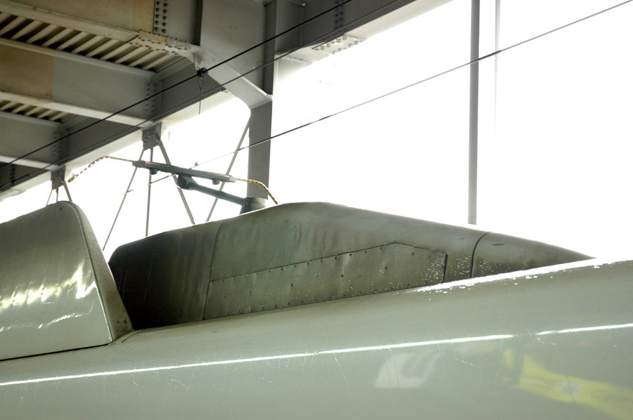 700 Series Shinkansen is a type of bullet train co-developed by two Japanese railway companies, JR Central and JR West. This photo shows the single-arm pantograph of "Hikari Rail Star" used by JR West on Sanyo shinkansen line.